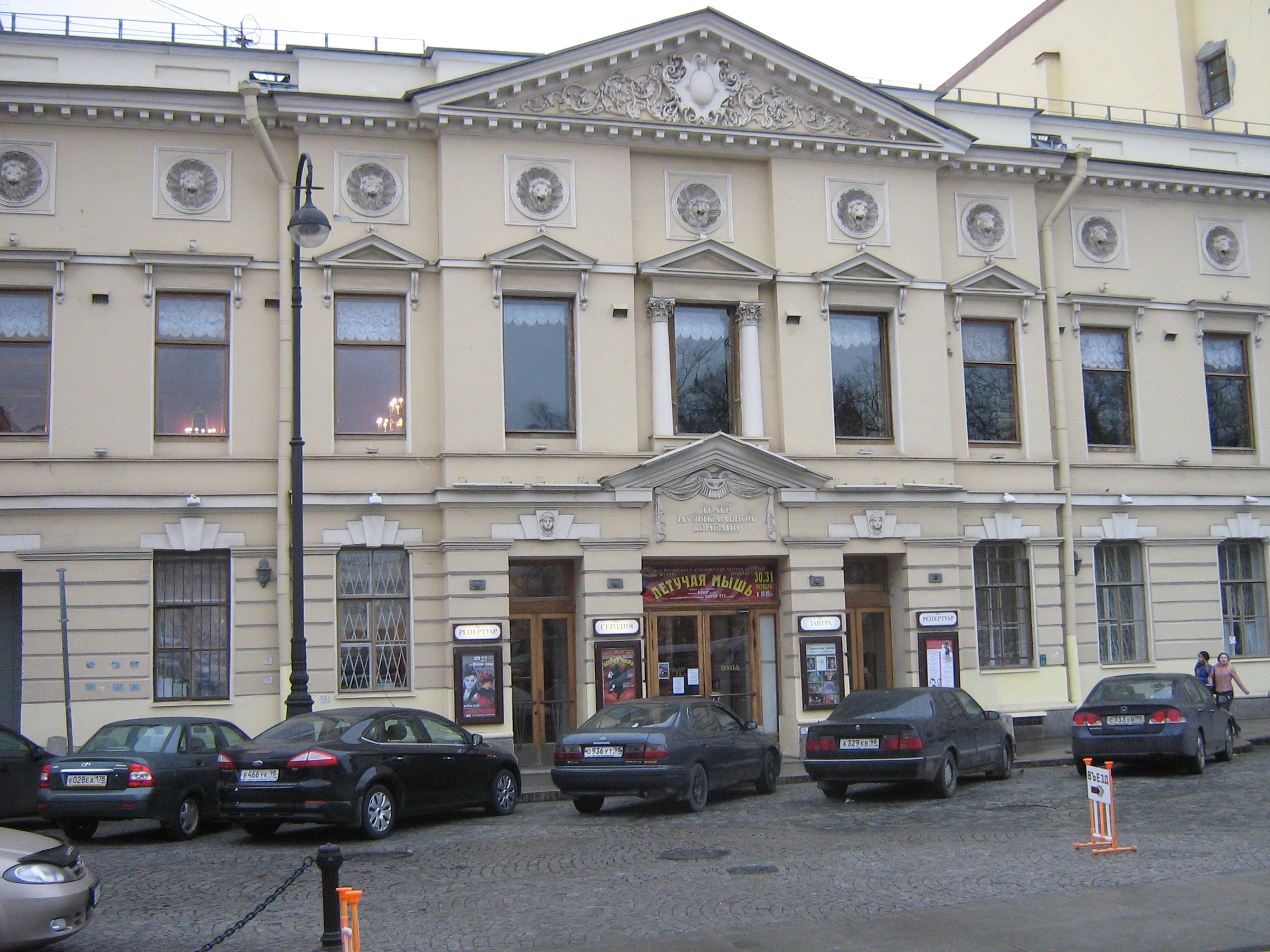 Saint Petersburg (Russia), Nevsky Avenue.